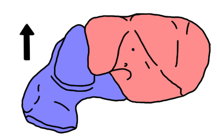 The left ankle of Nundasuchus songeaensis seen in proximal view (i.e. with the facets for the fibula and tibia facing the viewer). The calcaneum and astragalus are color-coded similar to archosaur ankle diagrams from Palaeos, with the calcaneum (left) in blue and the astragalus (right) in pink. The arrow indicates the anterior direction.